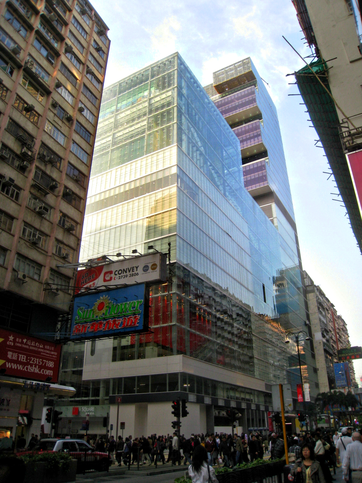 iSQUARE 國際廣場